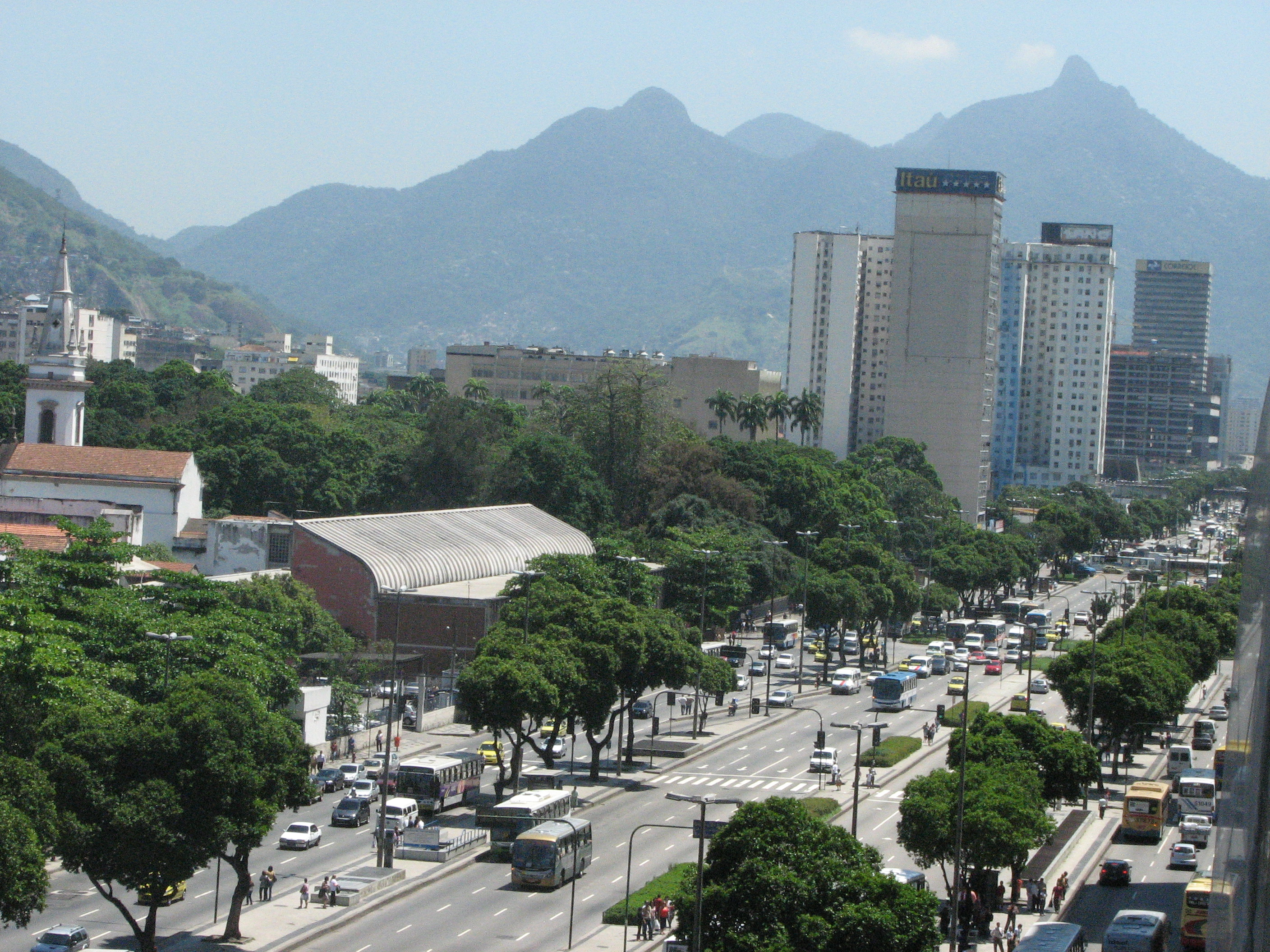 Avenida Presidente Vargas in downtown Rio, Brazil